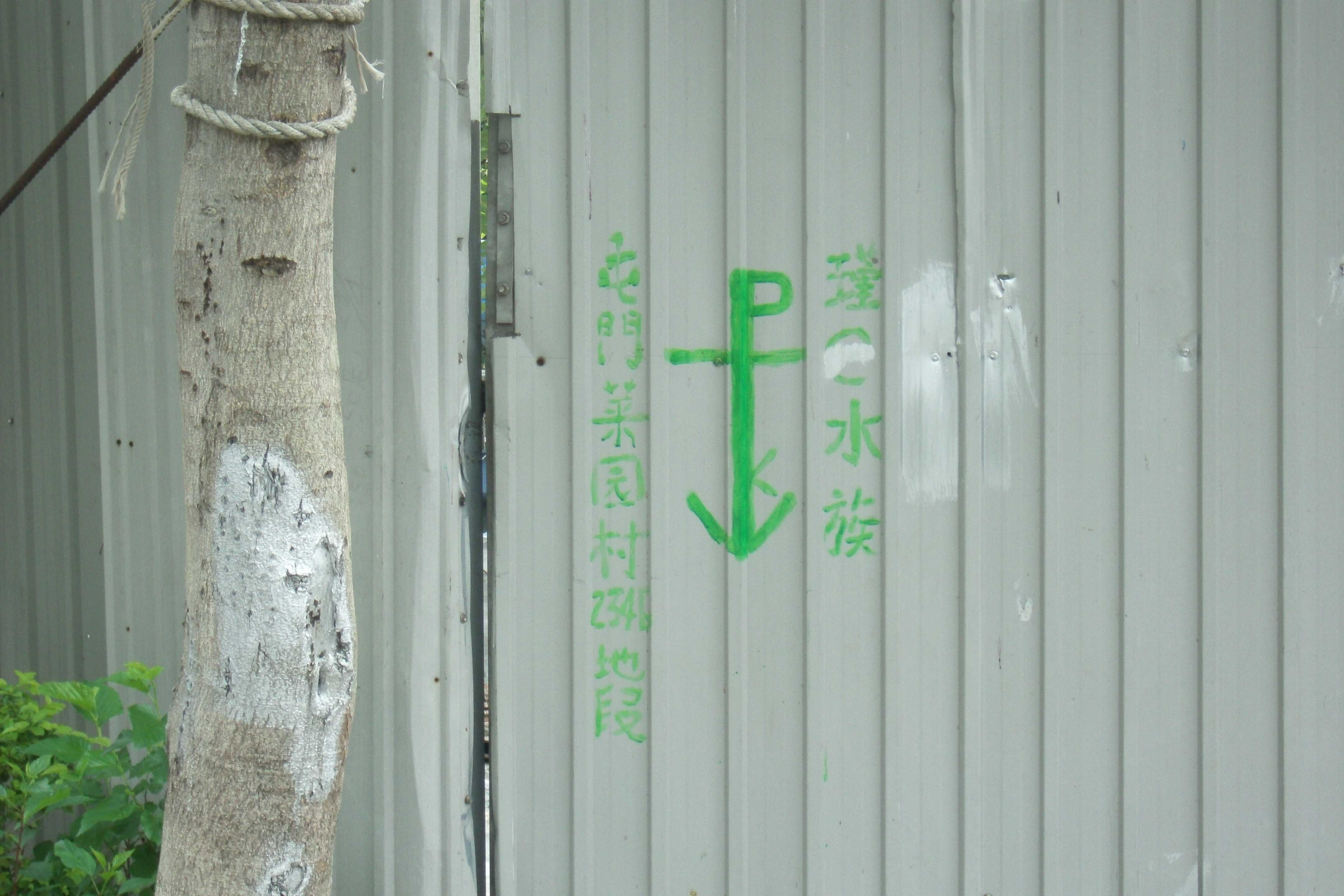 Tuen mun choi yuen village